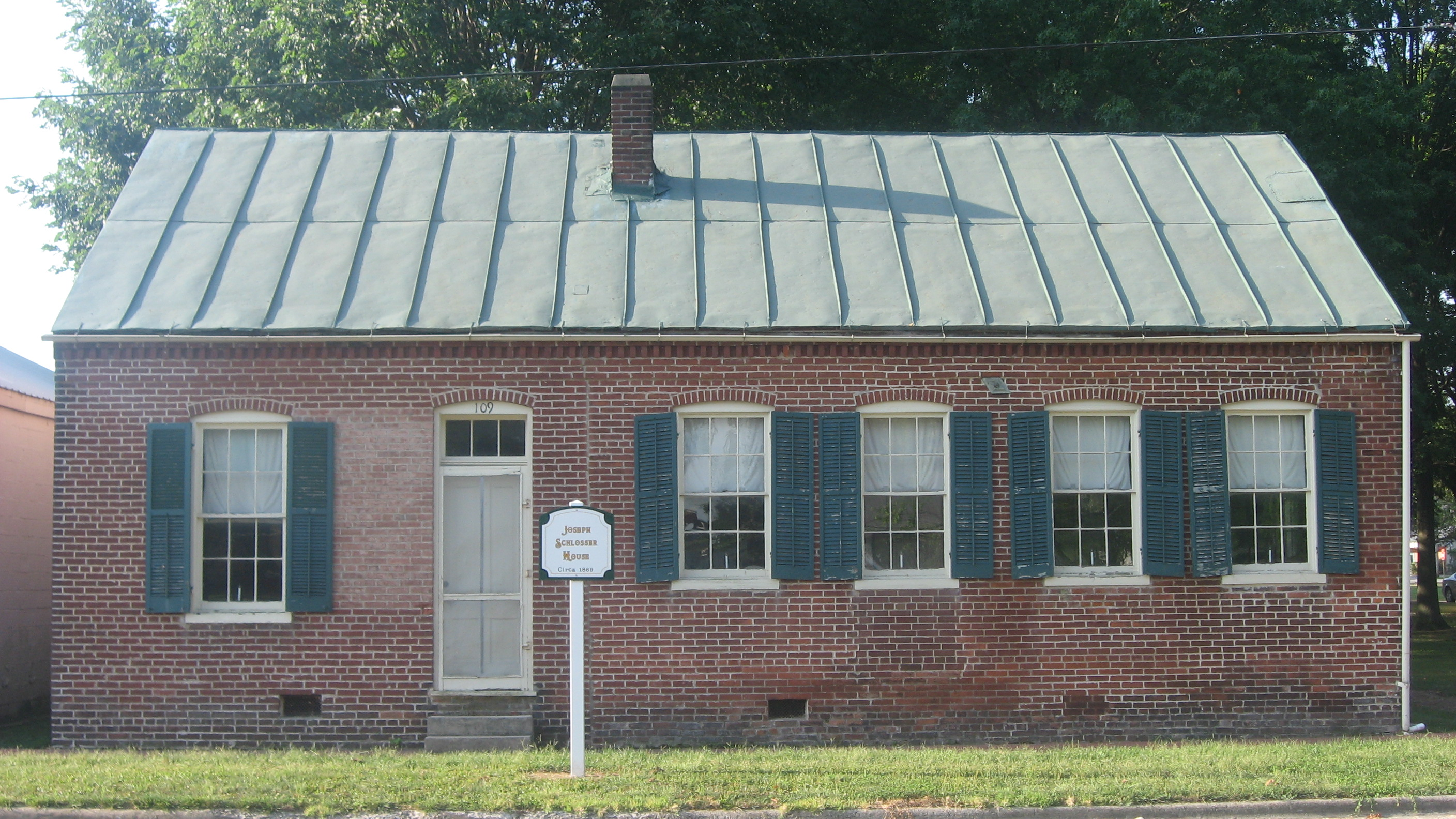 Front of the Frank Schlosser House, located on the southern side of W. Walnut Street in Okawville, Illinois, United States. Built in 1869, it is part of the Frank Schlosser Complex.